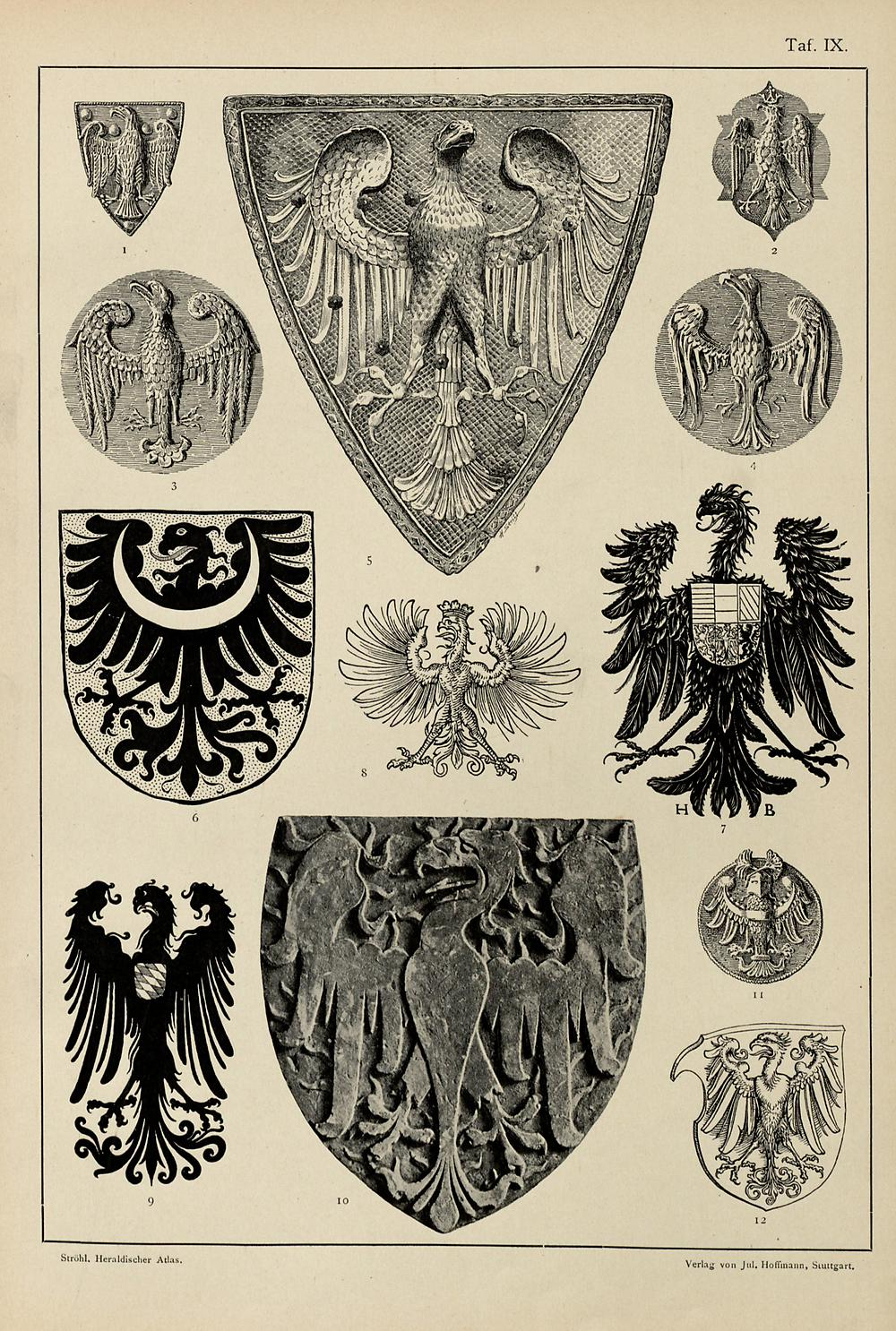 Hugo Gerhard Ströhl: "Heraldischer Atlas". Stuttgart 1899. Tafel 9, "Der Adler". 1. Italian seal of the 14th century 2. crowned eagle, Italian seal of the late 14th century 3. seal of Vienna (1239), File:Vienna seal oldest.jpg 4. seal of Henrich von Mödling (1203), File:Jindrich starsi Modling.jpg 5. knightly shield of the 14th century from Valère Basilica, Sion, Valais 6. Silesian eagle with crescent, Conrad Grünenberg (1483) 7. imperial eagle by Hans Burgkmair (1505), File:Burgkmair Reichsadler 1505.jpg 8. Jost Ammann (1589) 9. arms of Deggendorf, Bavaria, from an infantry shield of the late 15th century 10. Bohemian eagle, tomb of Ottokar I, Prague (14th century) 11. eagle with crescent and great helm, counterseal of Bolco II, Duke of Silesia (1334) 12. arms of Johannes Stabius by Albrecht Dürer (1515), File:Stabius wappen.jpg